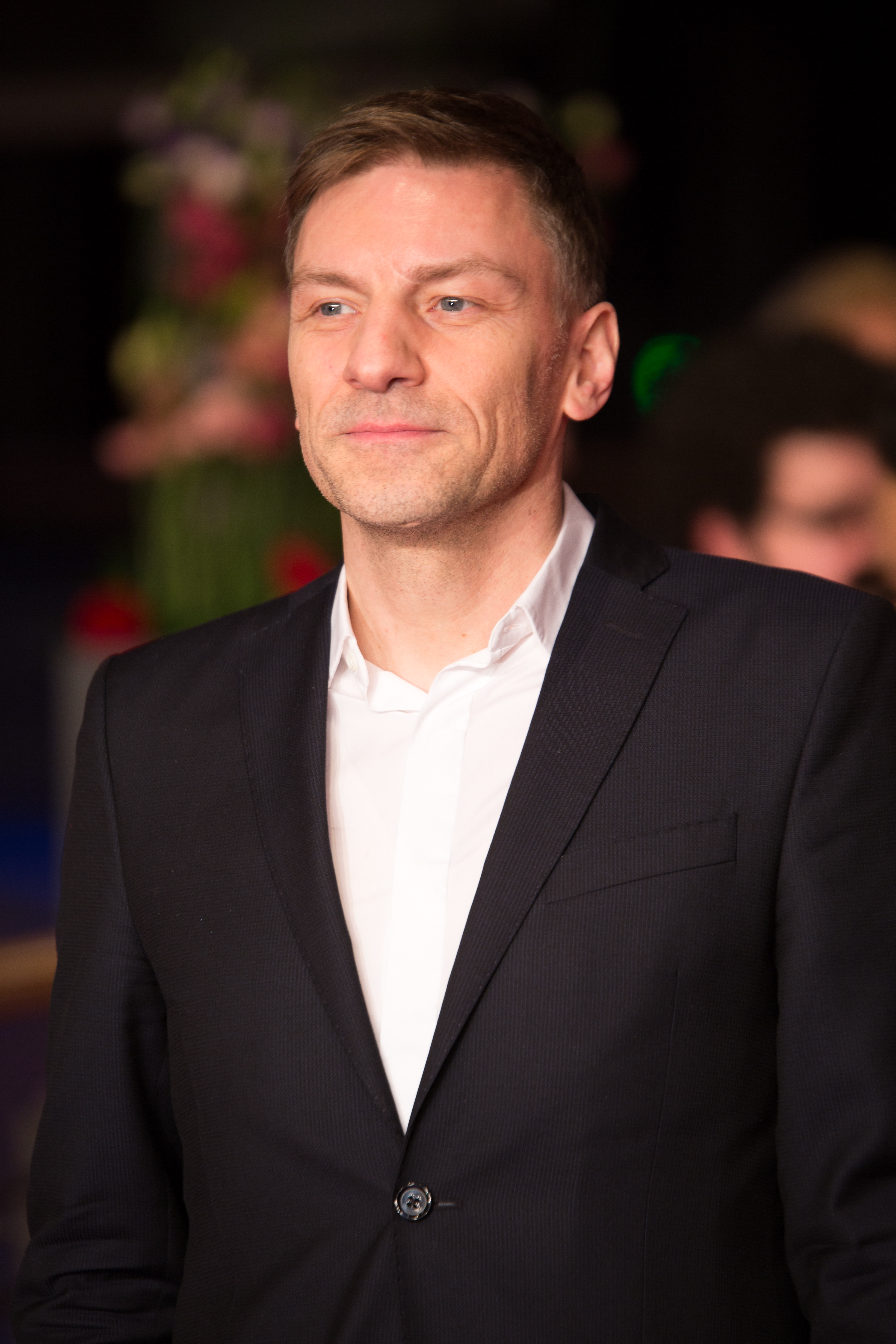 Hansjörg Weißbrich at the award ceremony of the 2018 Berlin Film Festival